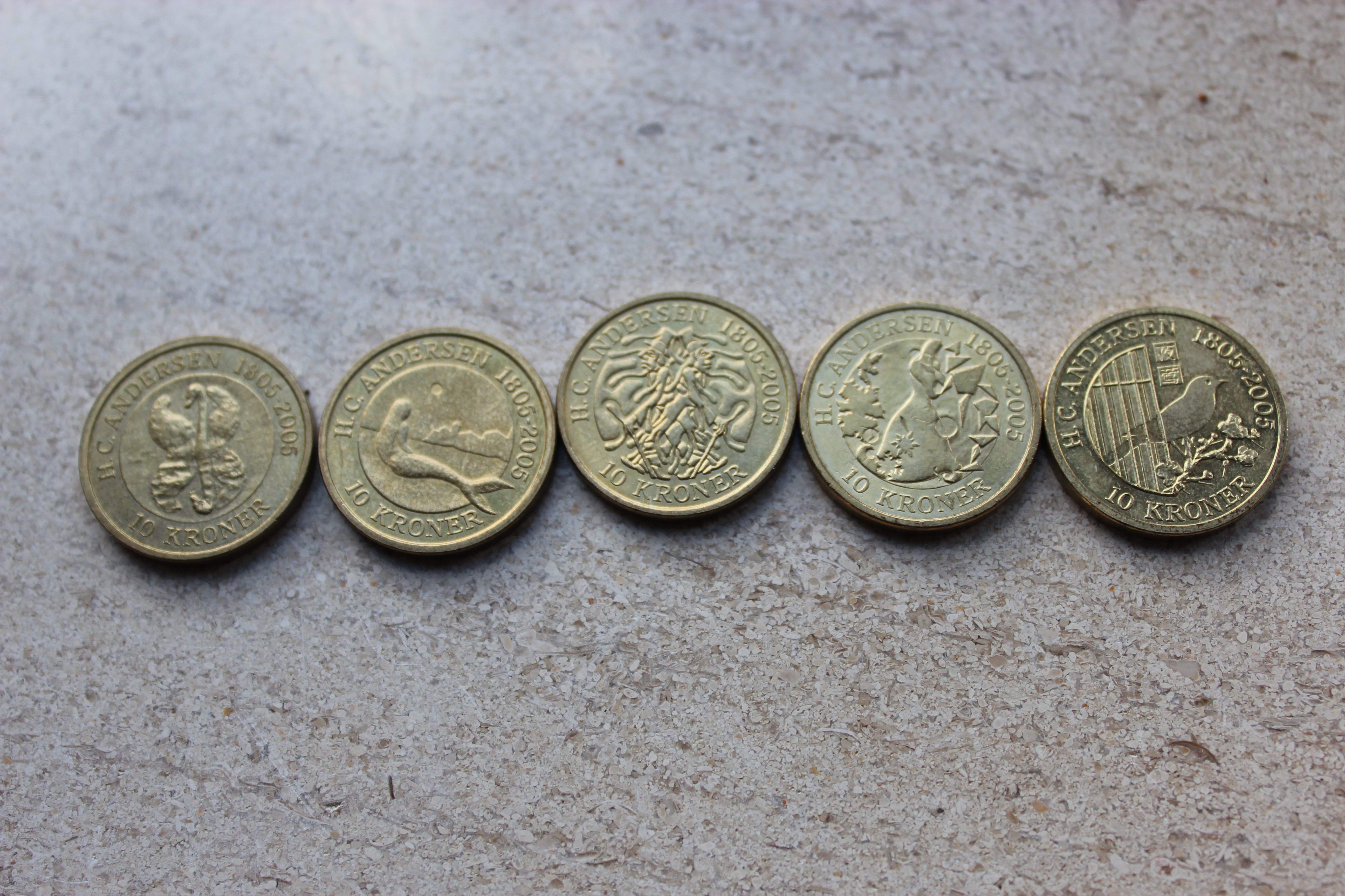 Theme coins of Denmark with illustrations from HC Andersen's fairytales.